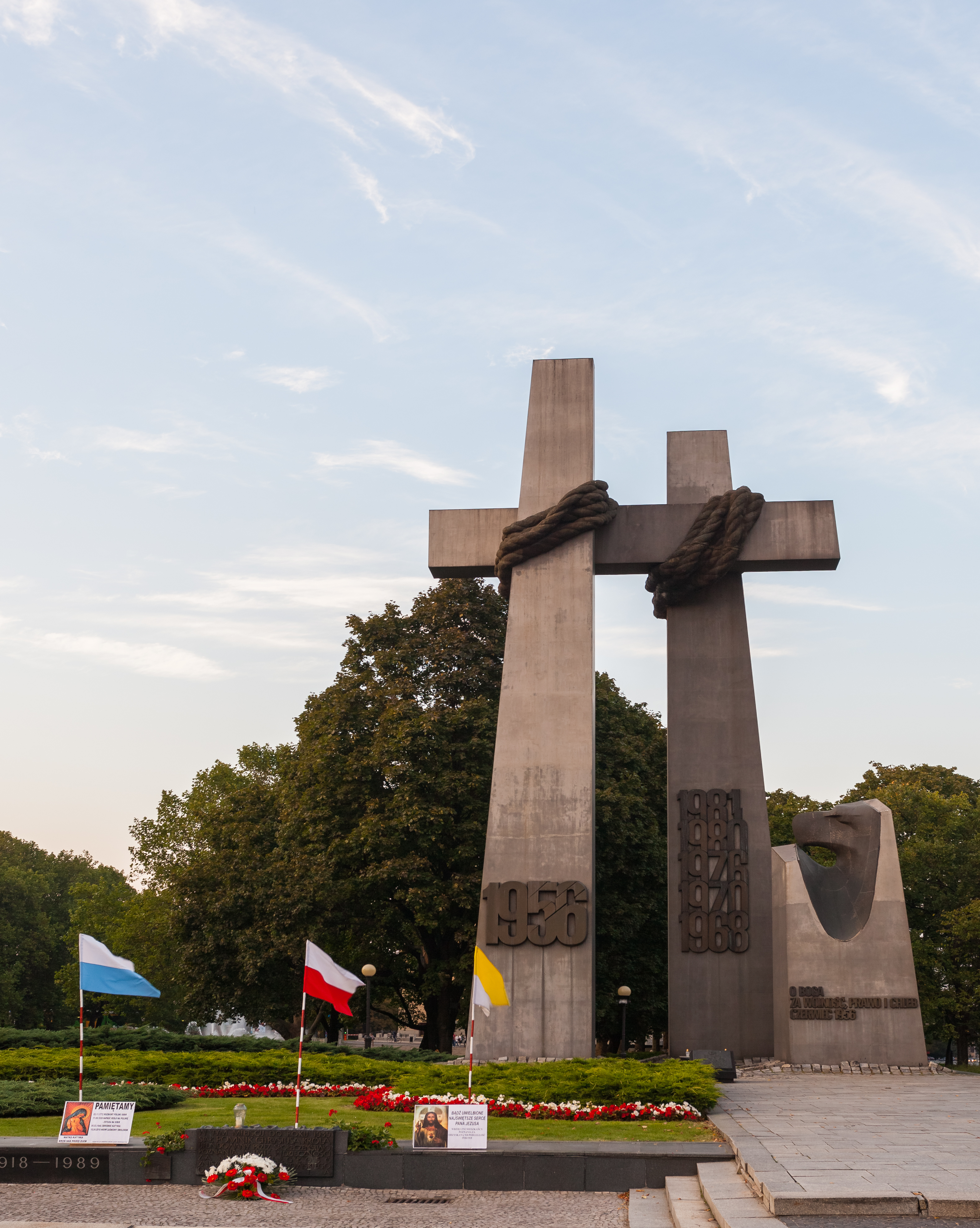 Poznan Crosses, Poznan, Poland